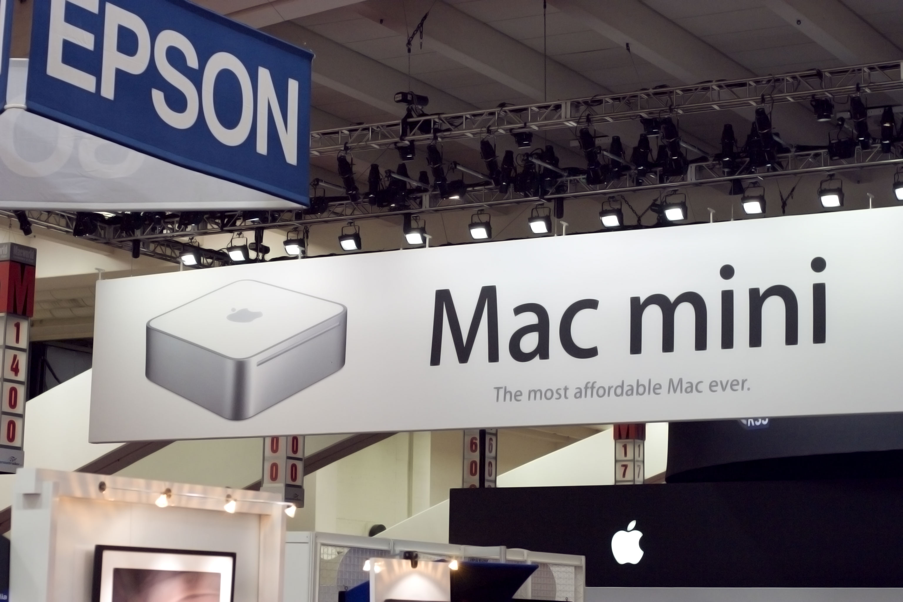 From Macworld Conference & Expo 2005 by Sean O'Flaherty aka Seano1